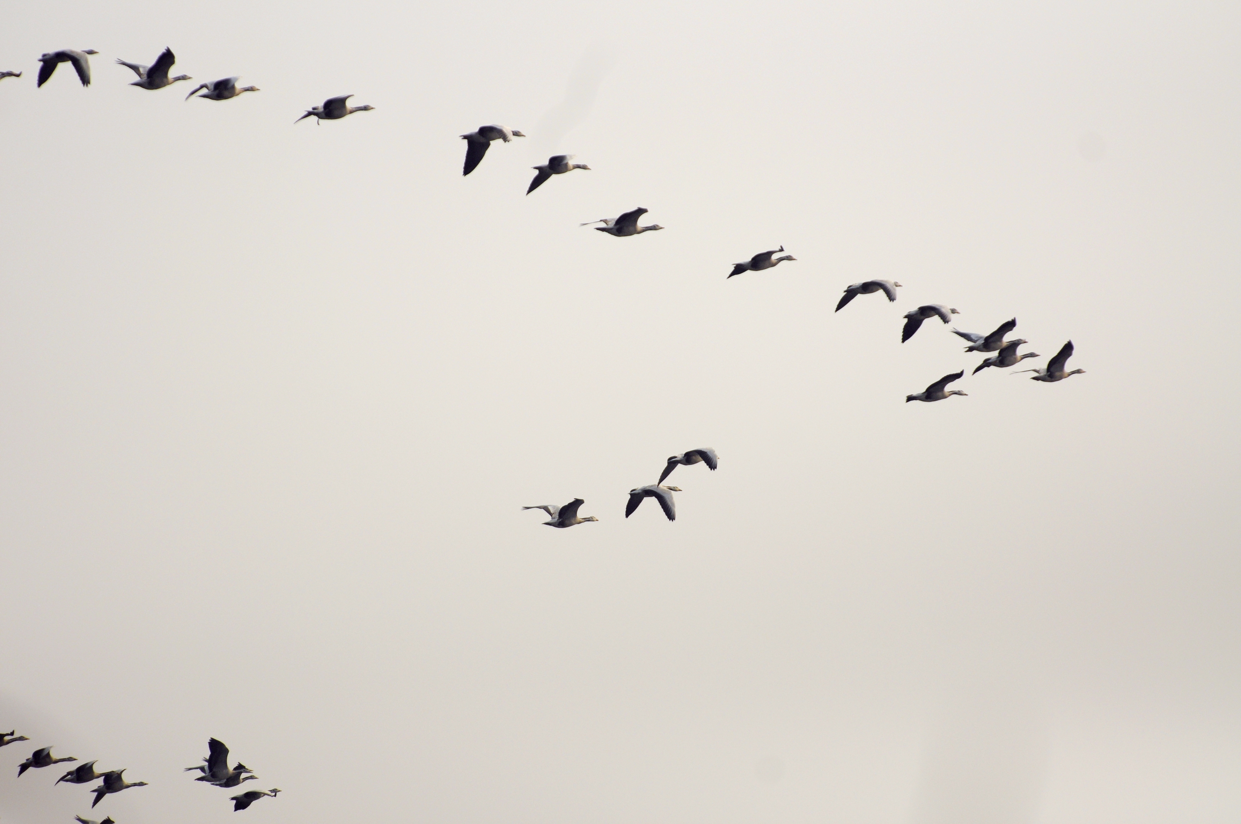 Flock of Bar-headed Goose Anser indicus in flight over Basai Wetland near Gurgaon (Gurugram), Haryana, India